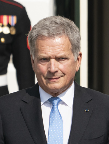 President Donald J. Trump welcomes Finnish President Sauli Niinistö Wednesday, Oct. 2, 2019, at the South Portico Entrance of the White House. (Official White House Photo by Joyce N. Boghosian)